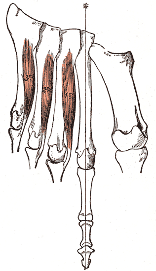 interossei plantares, left foot